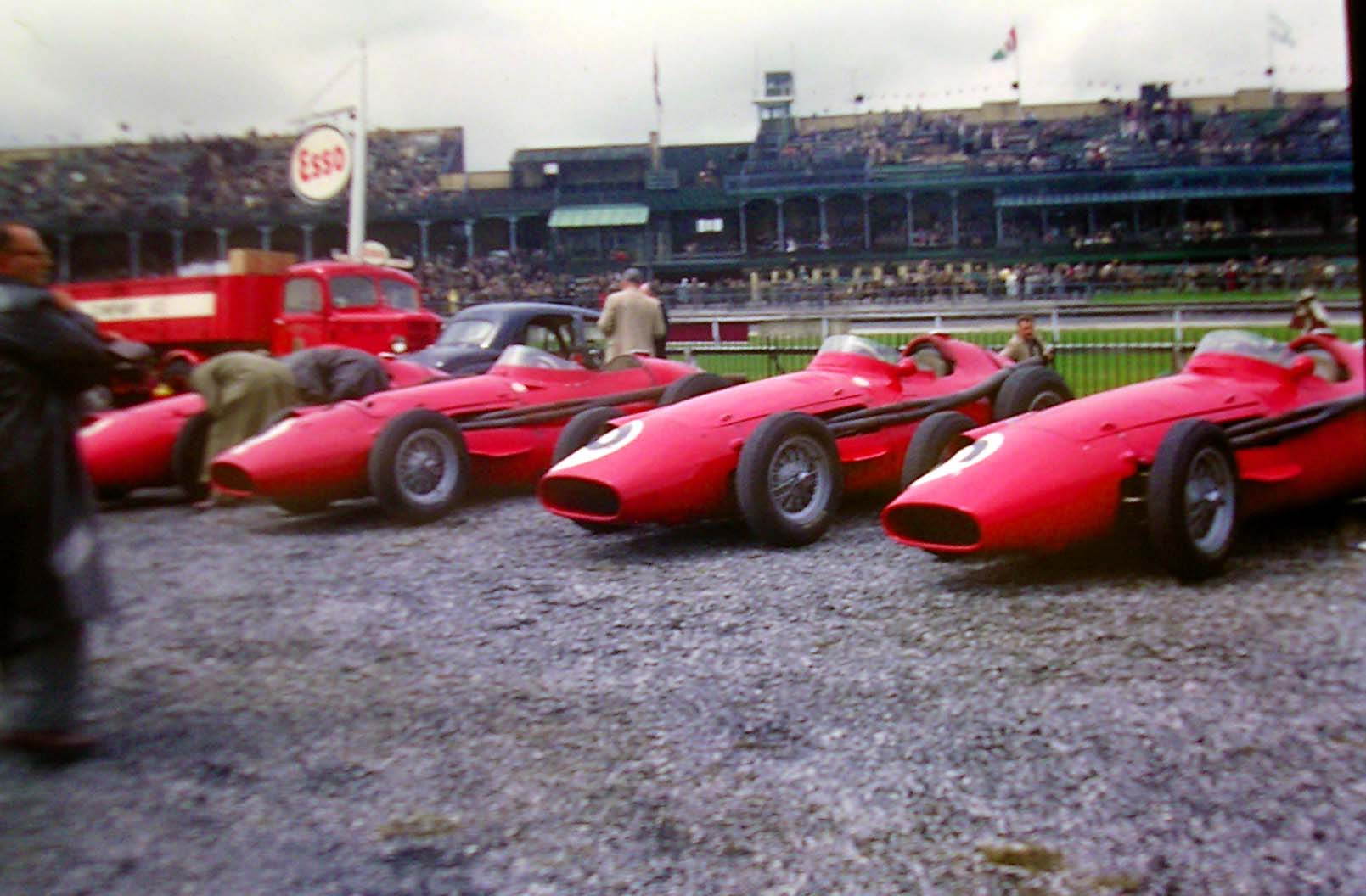 Several Maserati 250Fs on display. These cars were driven by Juan Manuel Fangio, Jean Behra, Harry Schell and Carlos Menditeguy. Taken before the 1957 British Grand Prix at Aintree